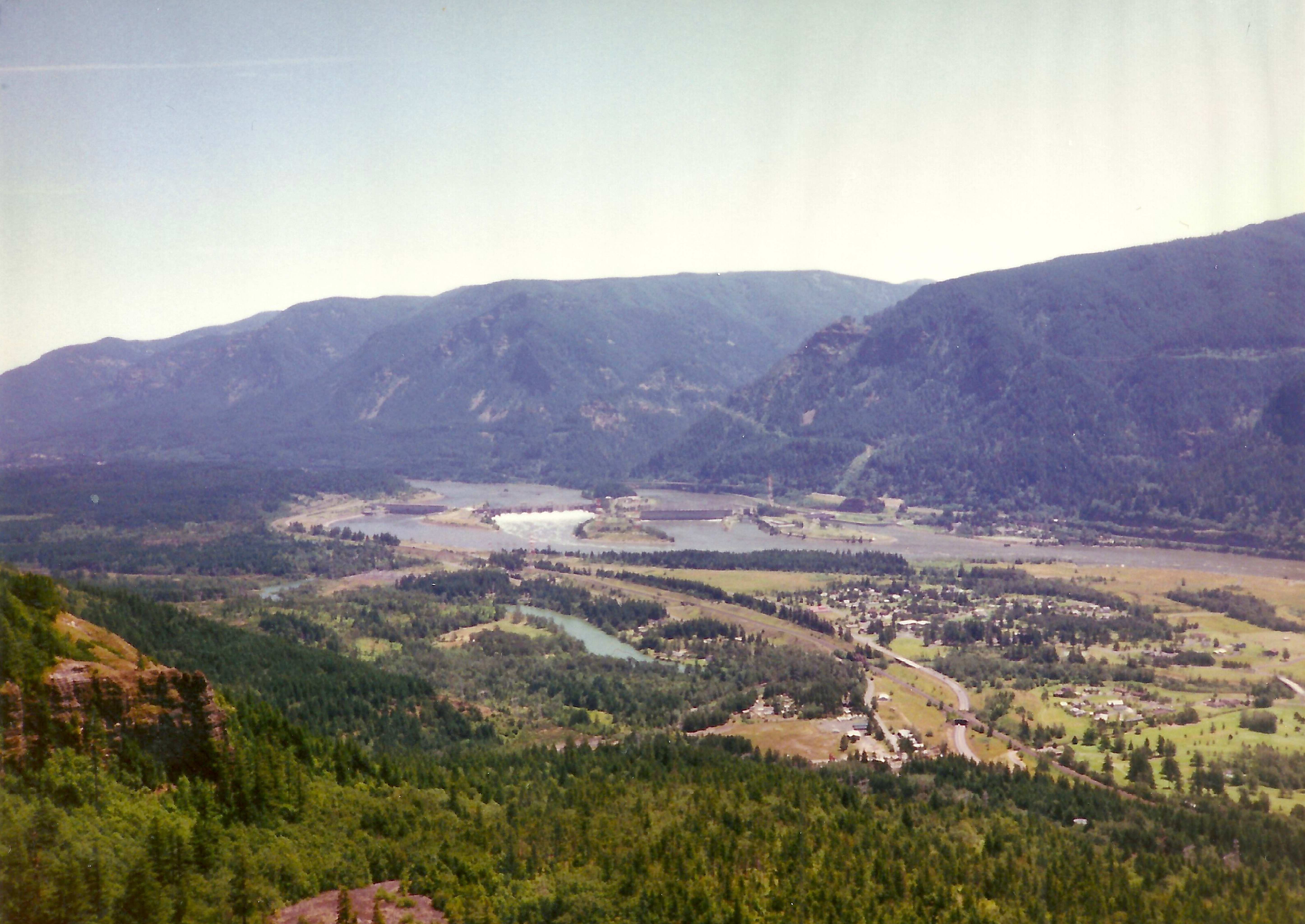 Bonneville Dam and North Bonneville, Washington from Beacon Rock State Park, WA. The mountains of Oregon can be seen across the Columbia River.